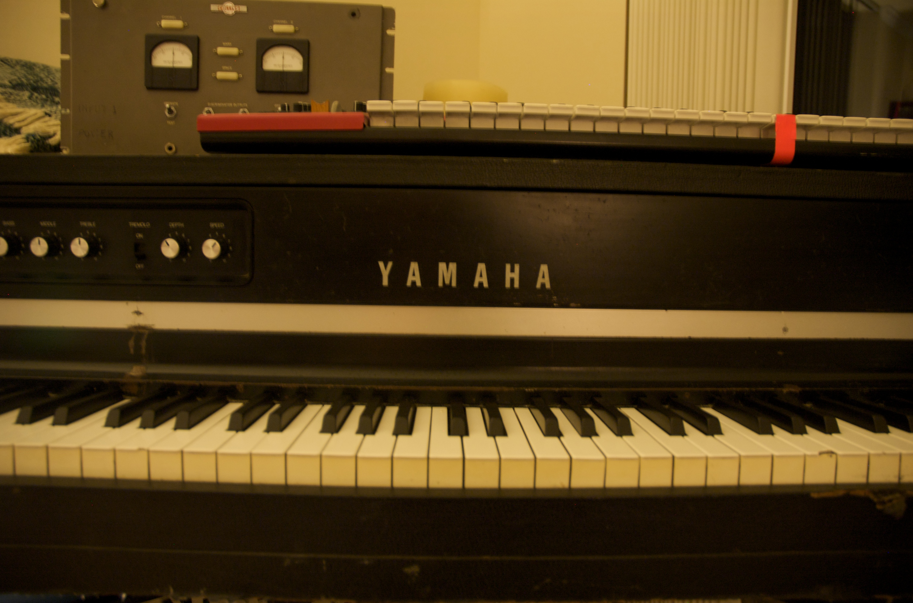 the CP-70 is in the Living Room Yamaha CP-70 Electric Grand Piano Collins Ham radio 706A-2 UTC COMPRESSOR/LIMITER/GATE [1]